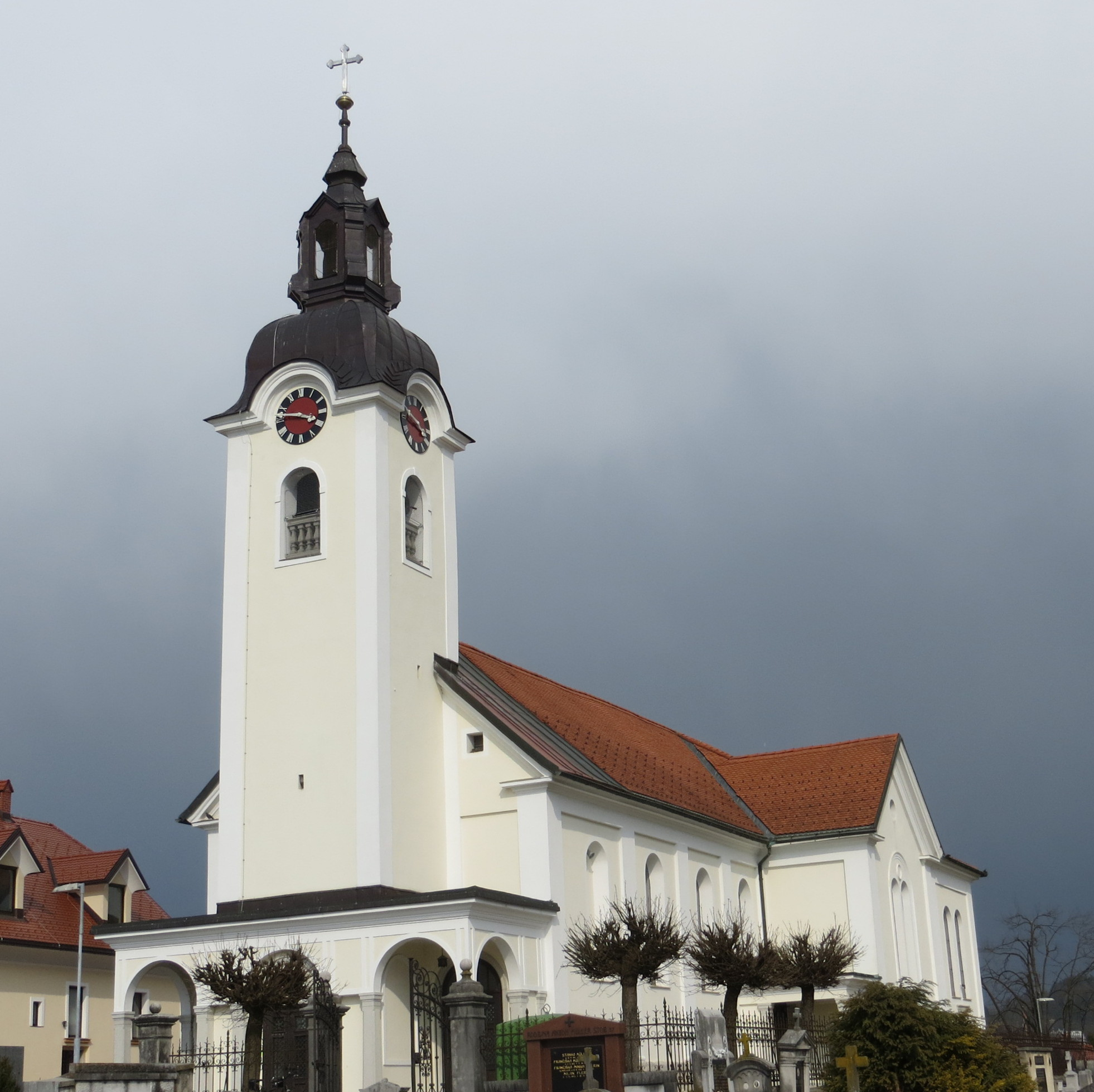 Assumption Church in Domžale, Municipality of Domžale, Slovenia